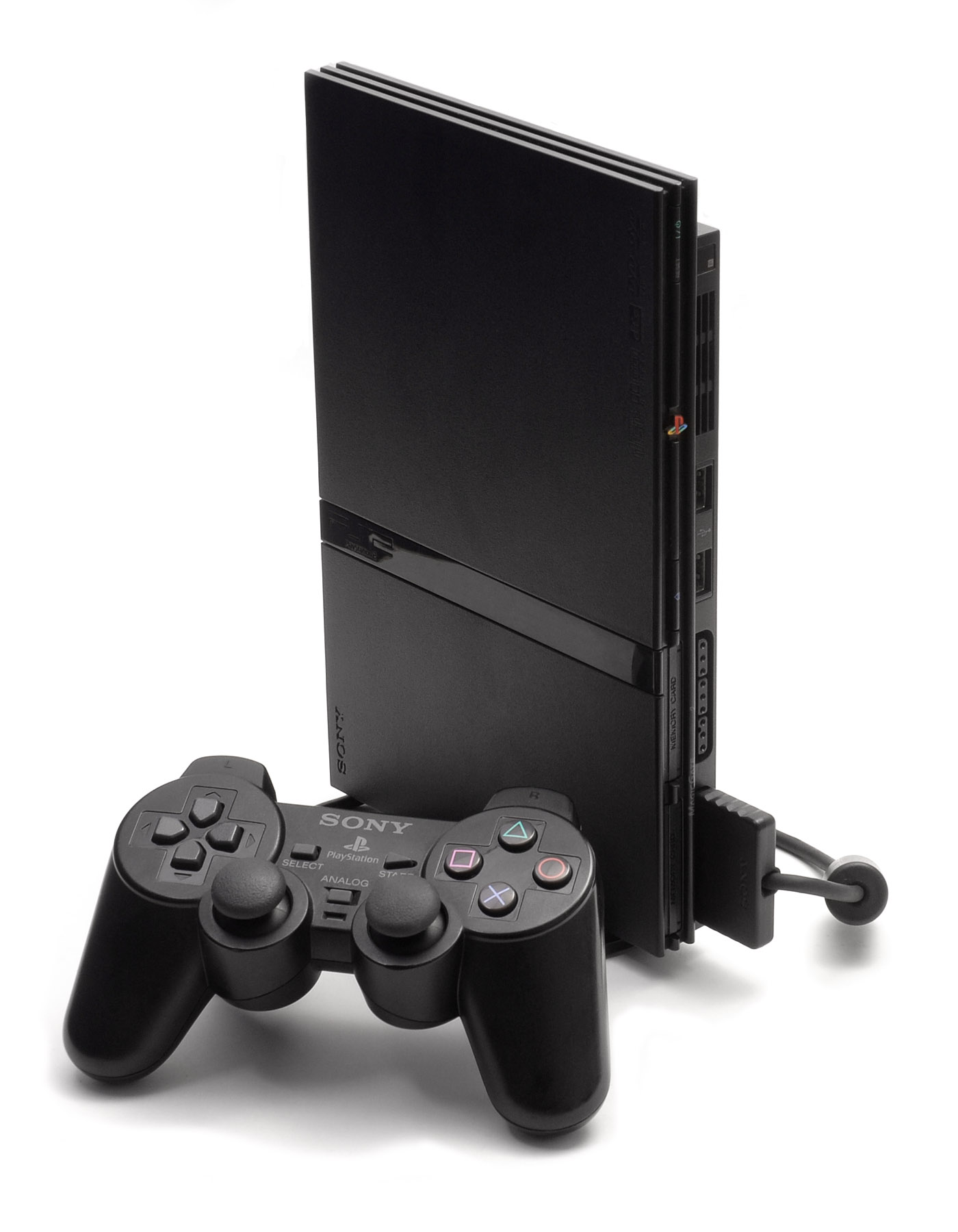 The slimline PS2 console with DualShock 2 controller.